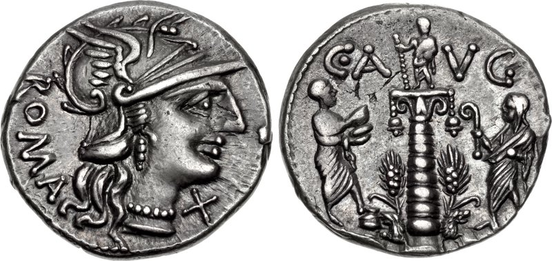 C. Augurinus. 135 BC. AR Denarius (19mm, 3.88 g, 12h). Rome mint. Head of Roma right, in high relief, wearing winged helmet, ornamented with griffin’s head, the visor in three pieces and peaked, wearing single-drop earring and pearl necklace, hair arranged in three symmetrical locks; ROMA downwards to left, X (mark of value) below chin / Ionic column, surmounted by a figure holding scepter in right hand and grain ears in left; the shaft is formed of torus-shaped blocks; to the capital is attached a tinnabulum (bell) on either side; at base of column are two lion heads, each surmounted by a stalk of grain; on left, togate figure of L. Minucius Augurinus, togate, holding a dish and a loaf, left foot on modius; on right, togate figure of M. Minucius Faesus, holding lituus in right hand; C • A VG above. Crawford 242/1; Sydenham 463; Kestner 2195-6; BMCRR Rome 952-4; Minucia 3. Near EF, attractive cabinet toning, tiny flan flaw on reverse. Well struck. From the Archer M. Huntington Collection, ANS 1001.1.10591.